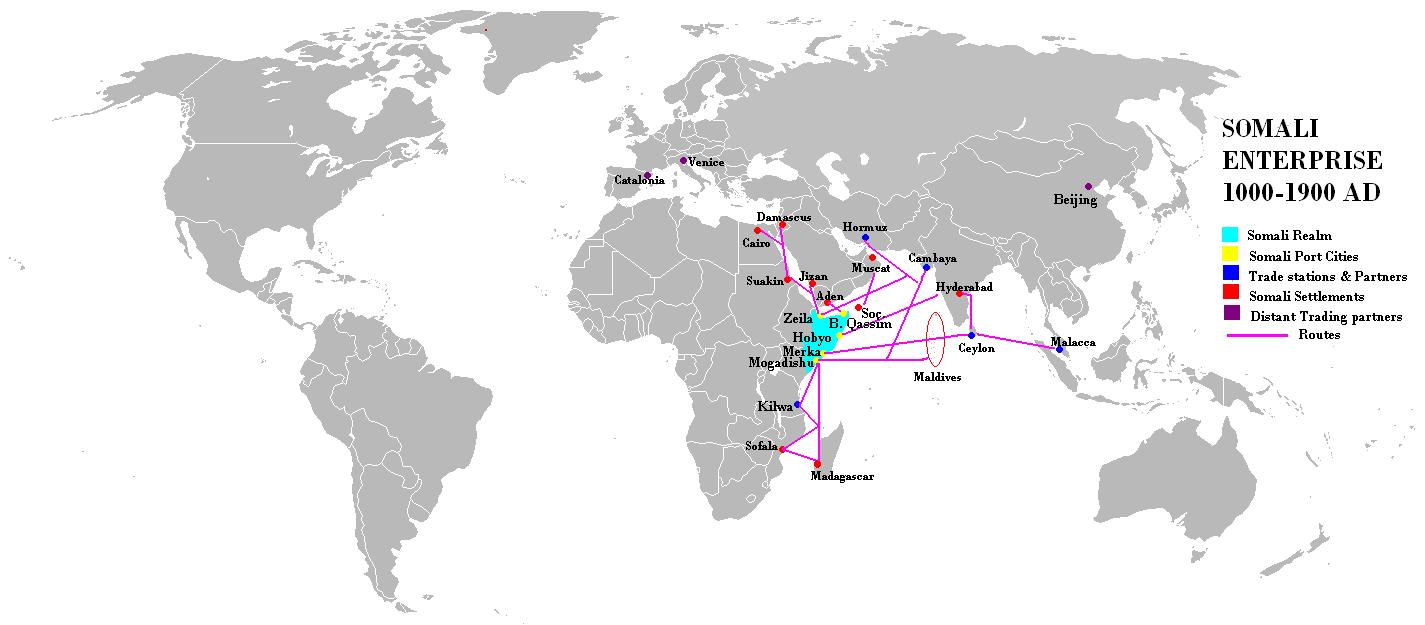 Map of Somali Port Cities, Settlements, traderoutes and partners.